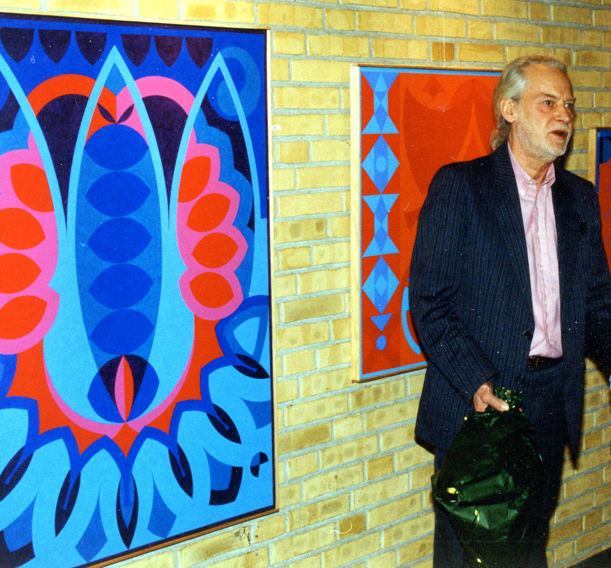 Retrospective exhibition 1959-1999. Technical Education Copenhagen.